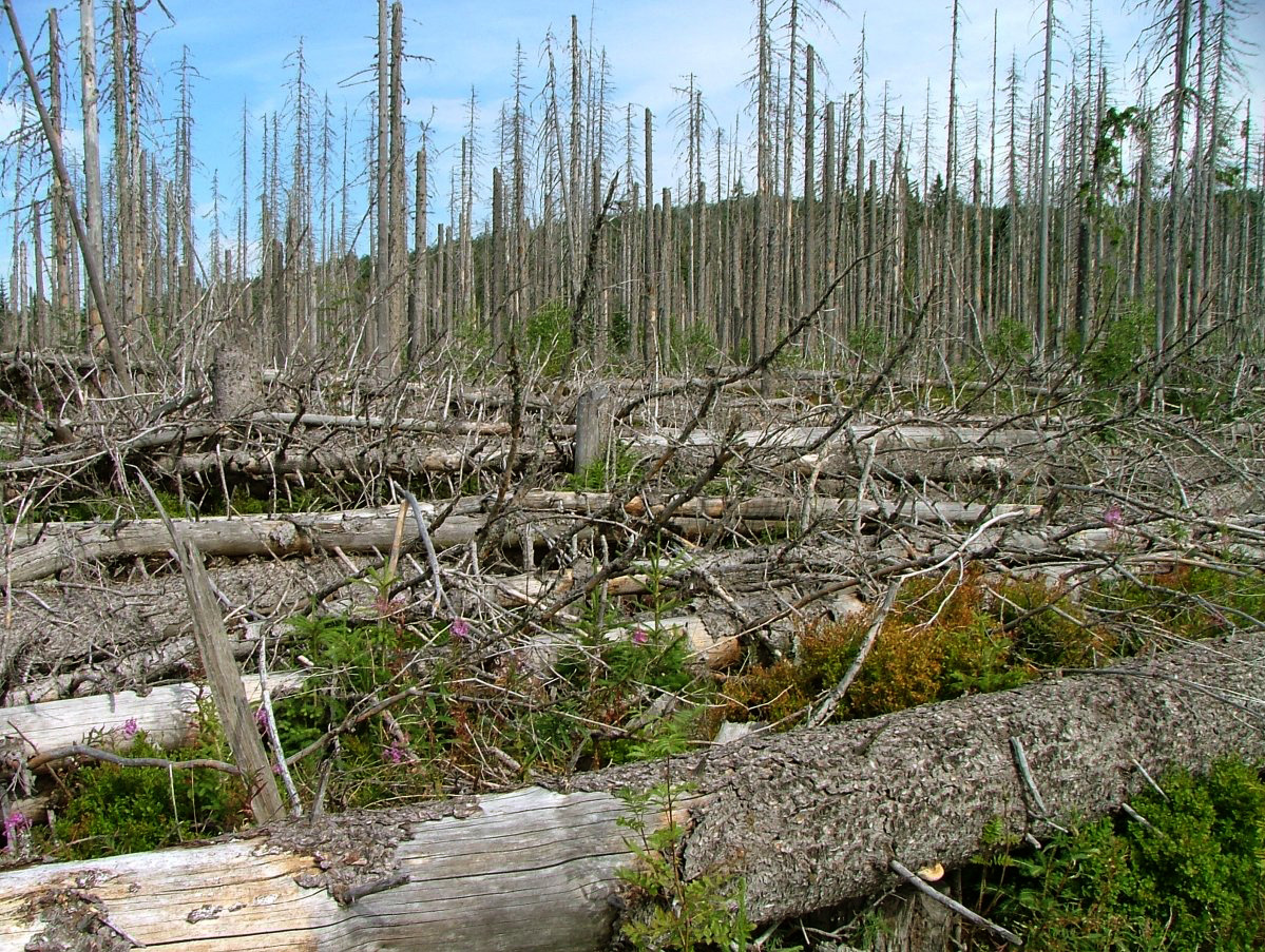 Nationalpark Bayerischer Wald, forest dieback due to bark beetles. Picture taken between Waldhäuser and Lusen.